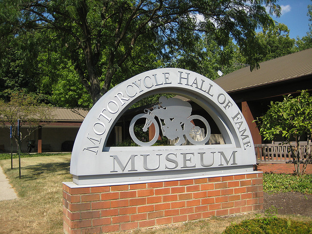 Motorcycle Hall of Fame: Home of the AMA and Motorcycle Hall of Fame, Pickerington OH Camera: Canon PowerShot SD1000 License on Flickr: CC-BY-SA-2.0 Flickr tags: Columbus, Pickerington